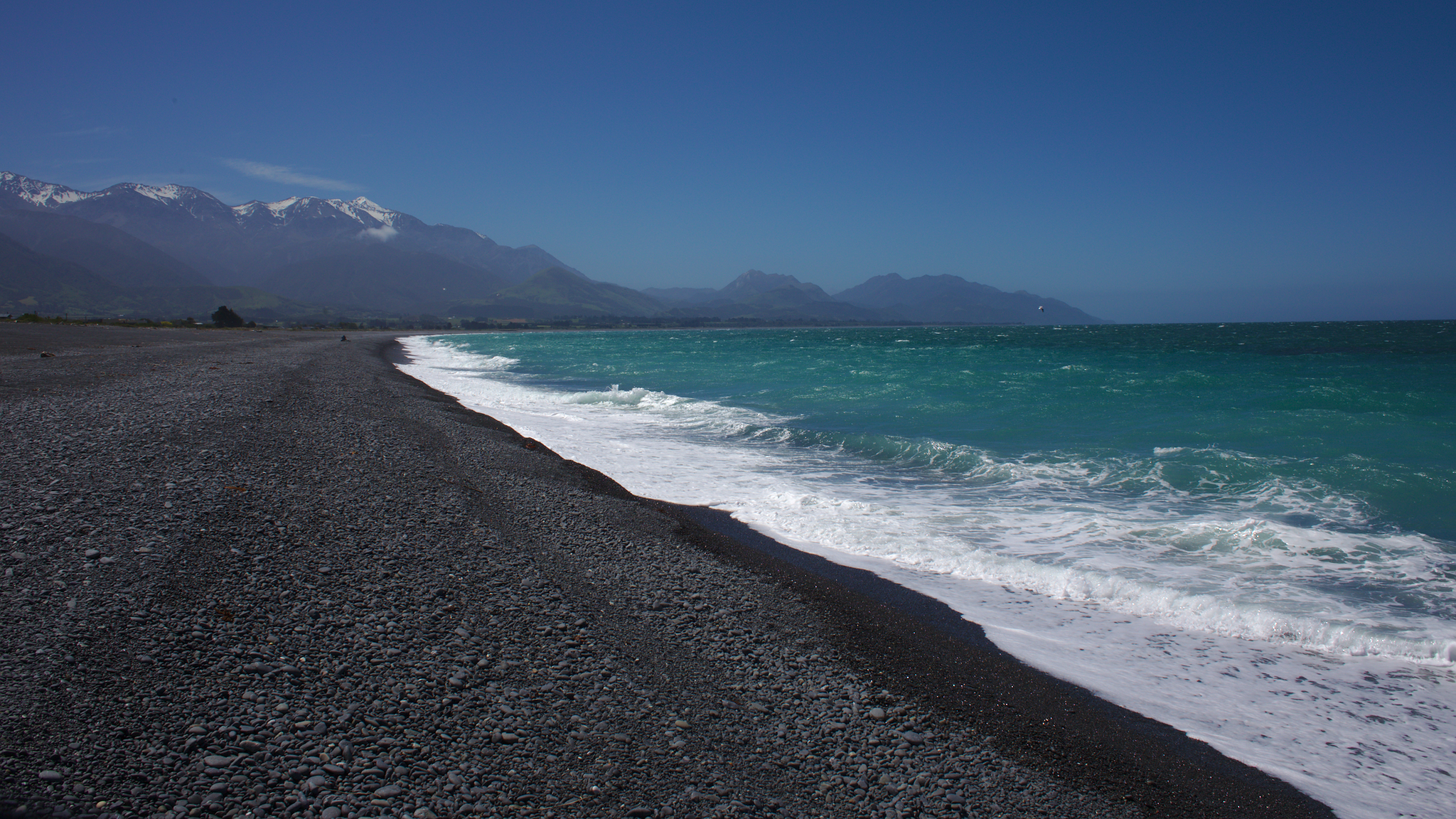 Coast at Kaikoura Train Station